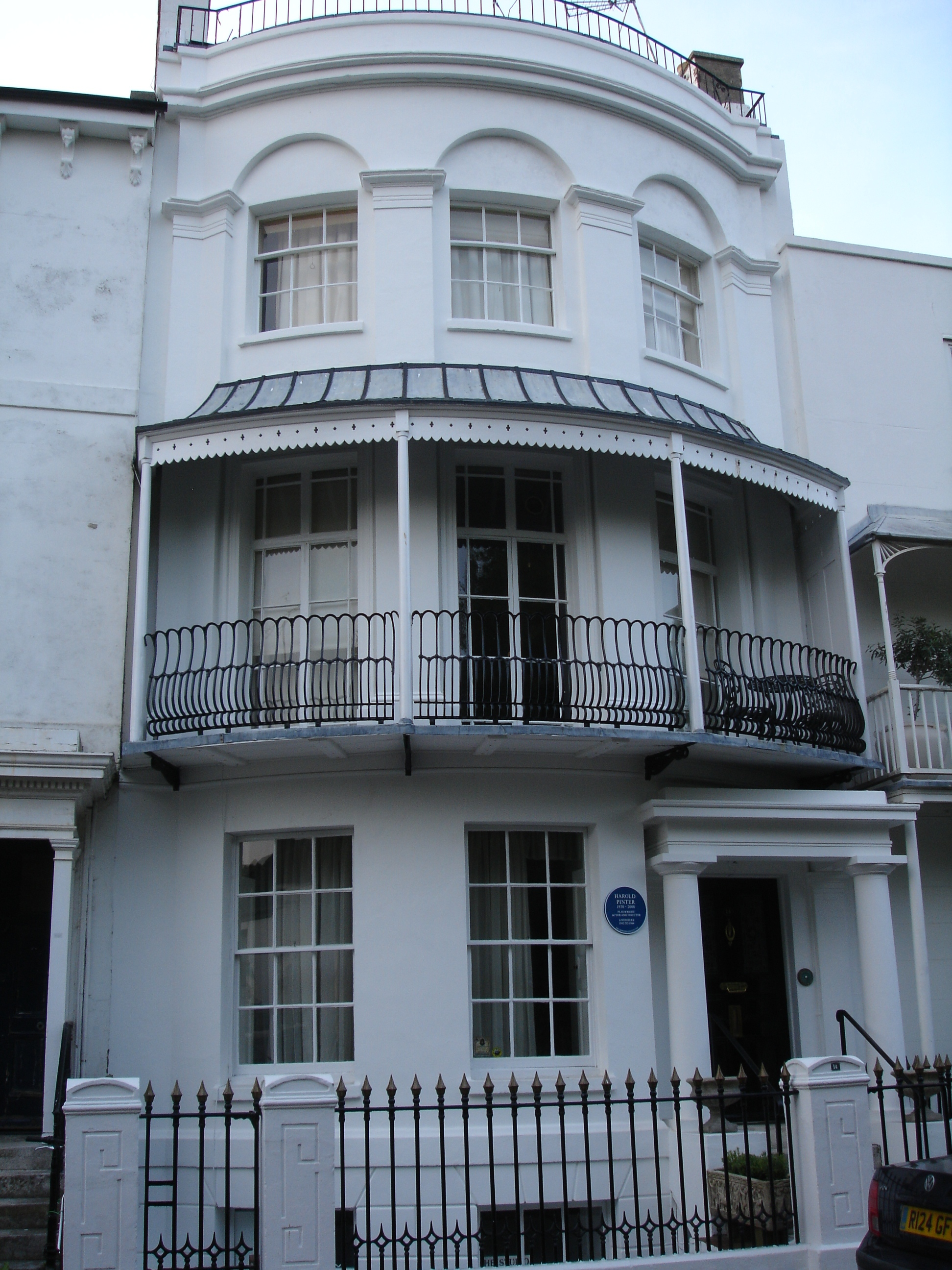 Harold Pinter